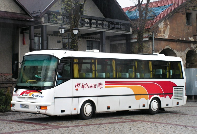 Solbus C9,5 bus from PKS Connex Sędziszów Małopolski. From 2007 - Veolia Transport Podkarpacie.